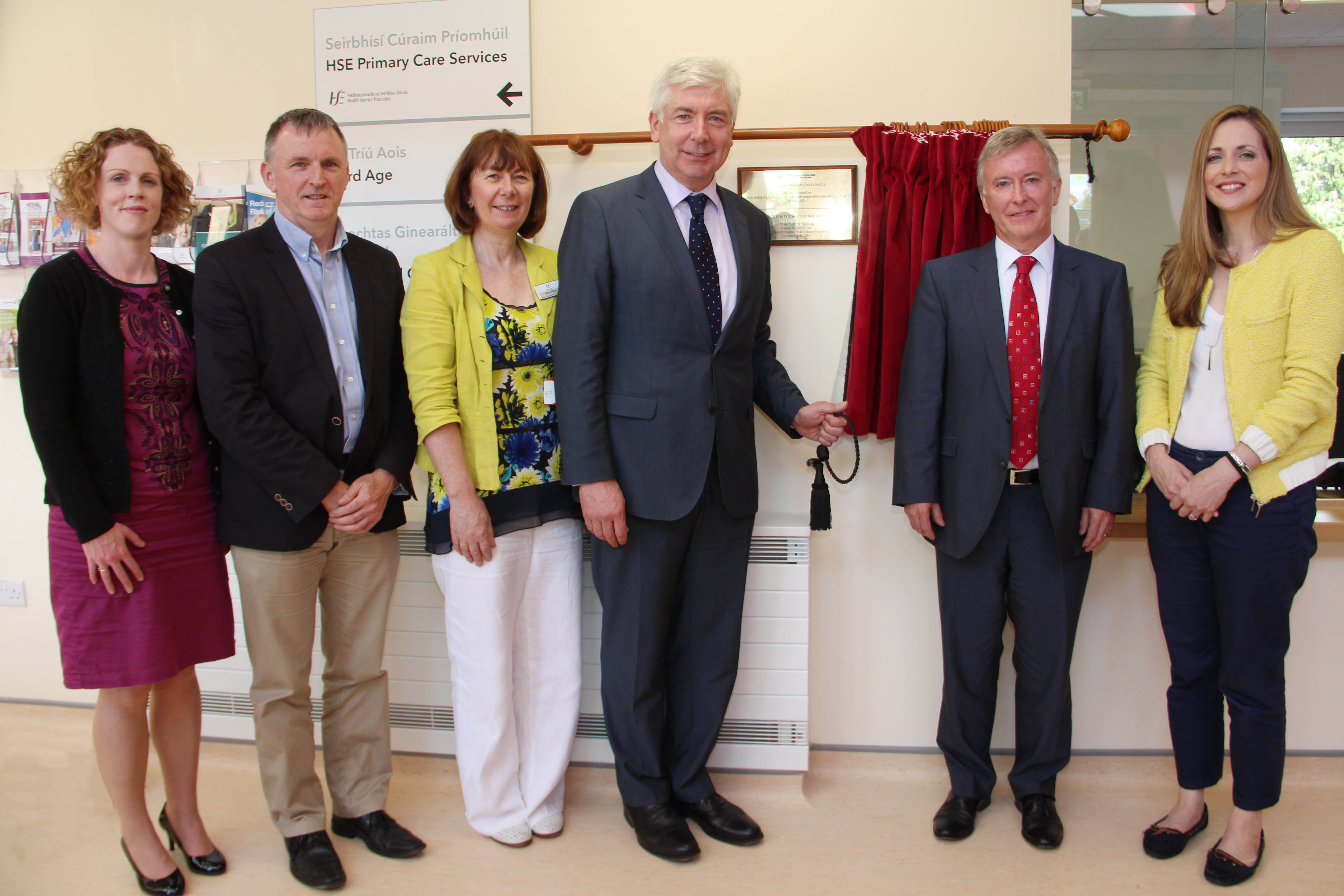 Alex White TD Minister of State with responsibility for Primary Care officially opens the GP, HSE Facilities & Third Age Accommodation off the Summerhill Primary Care Centre. He is pictured here with l-r Fiona Monahan Physiotheray Manager, Dermot Monaghan HSE Area Manager Louth/Meath, Mary O'Hare Network Adminisrator, Dr Joe Clarke General Practitioner Summerhill GP Practice and Dervila Eyres General Manager Meath PCCC